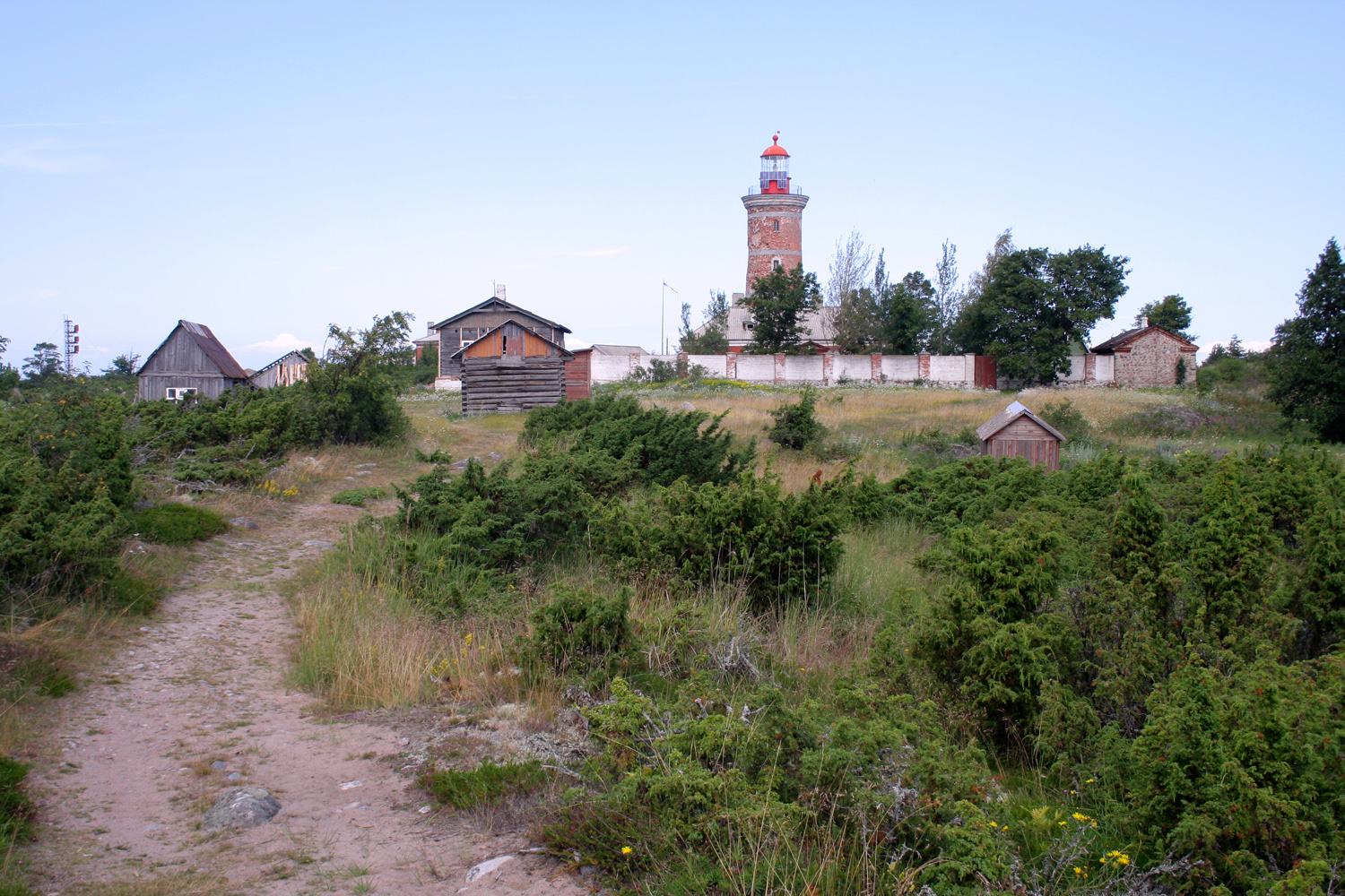 Mohni island landscape and lighttower